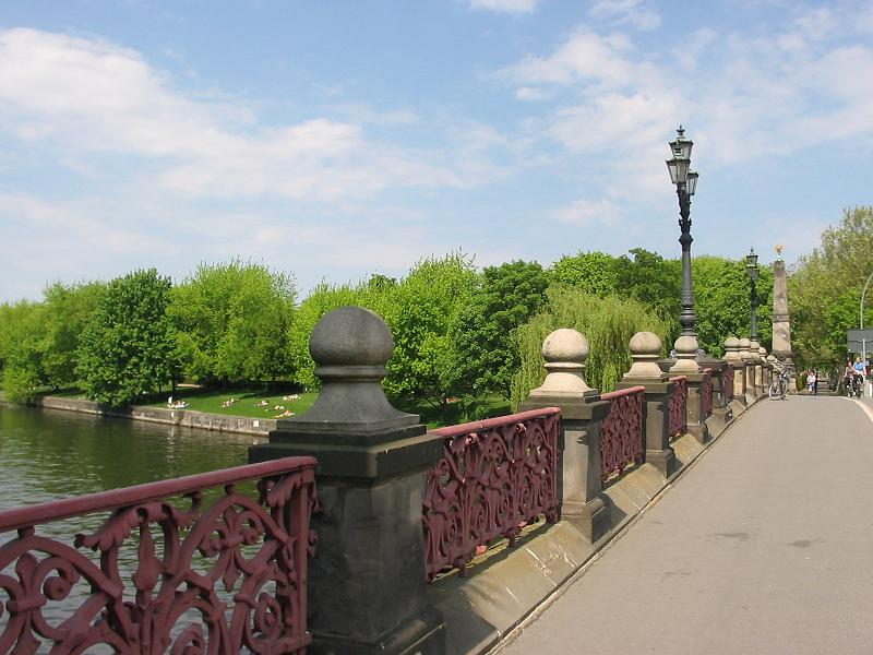 The „Bundespräsidentendreieck“ (in short: Präsidentendreieck) is a parc at river Spree in Berlin-Mitte, opened in 2001. View from the Lutherbrücke (bridge).